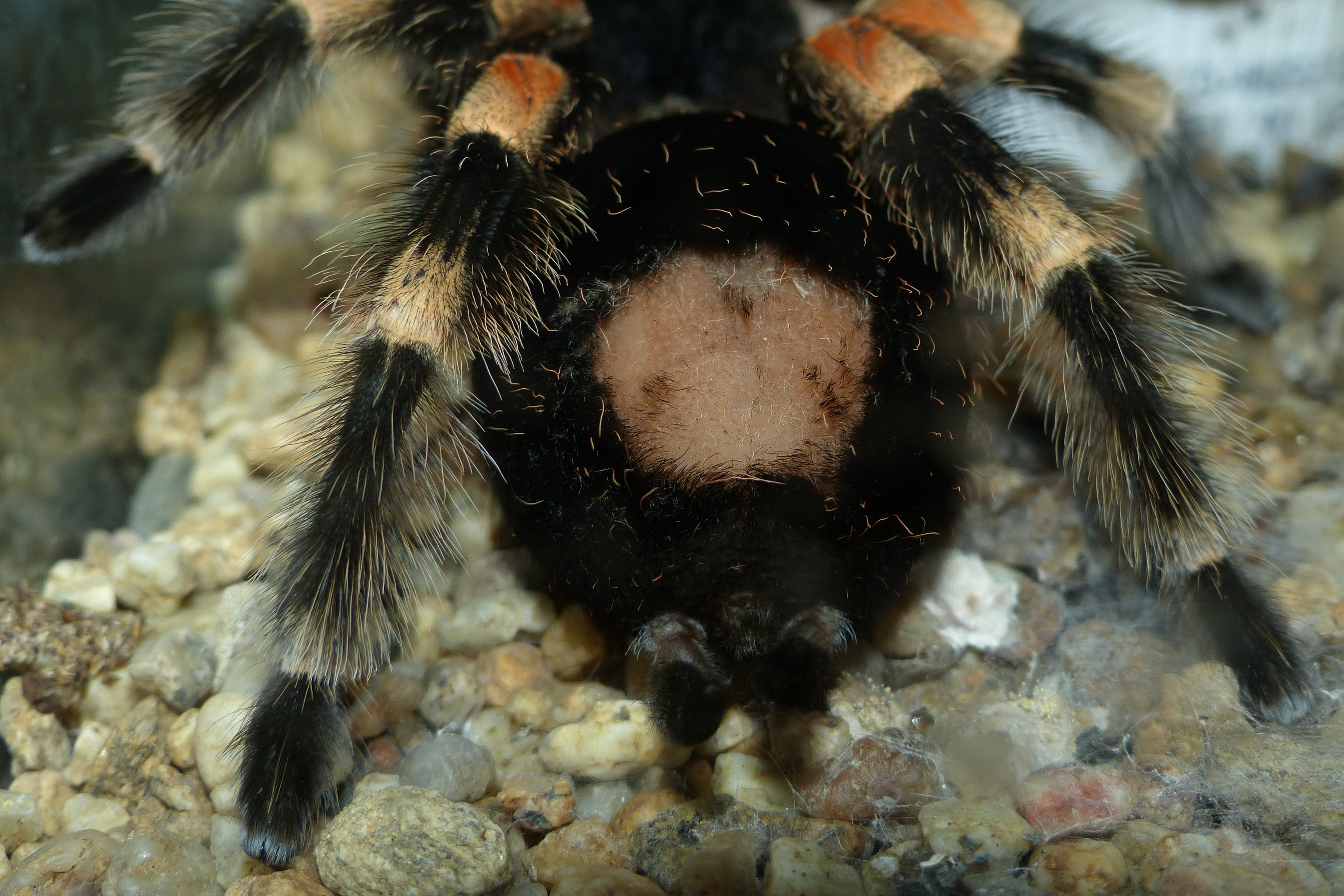 An adult female of Brachypelma smithi, showing a bald patch after kicking hairs off her abdomen. After molting, the hairs will grow again.